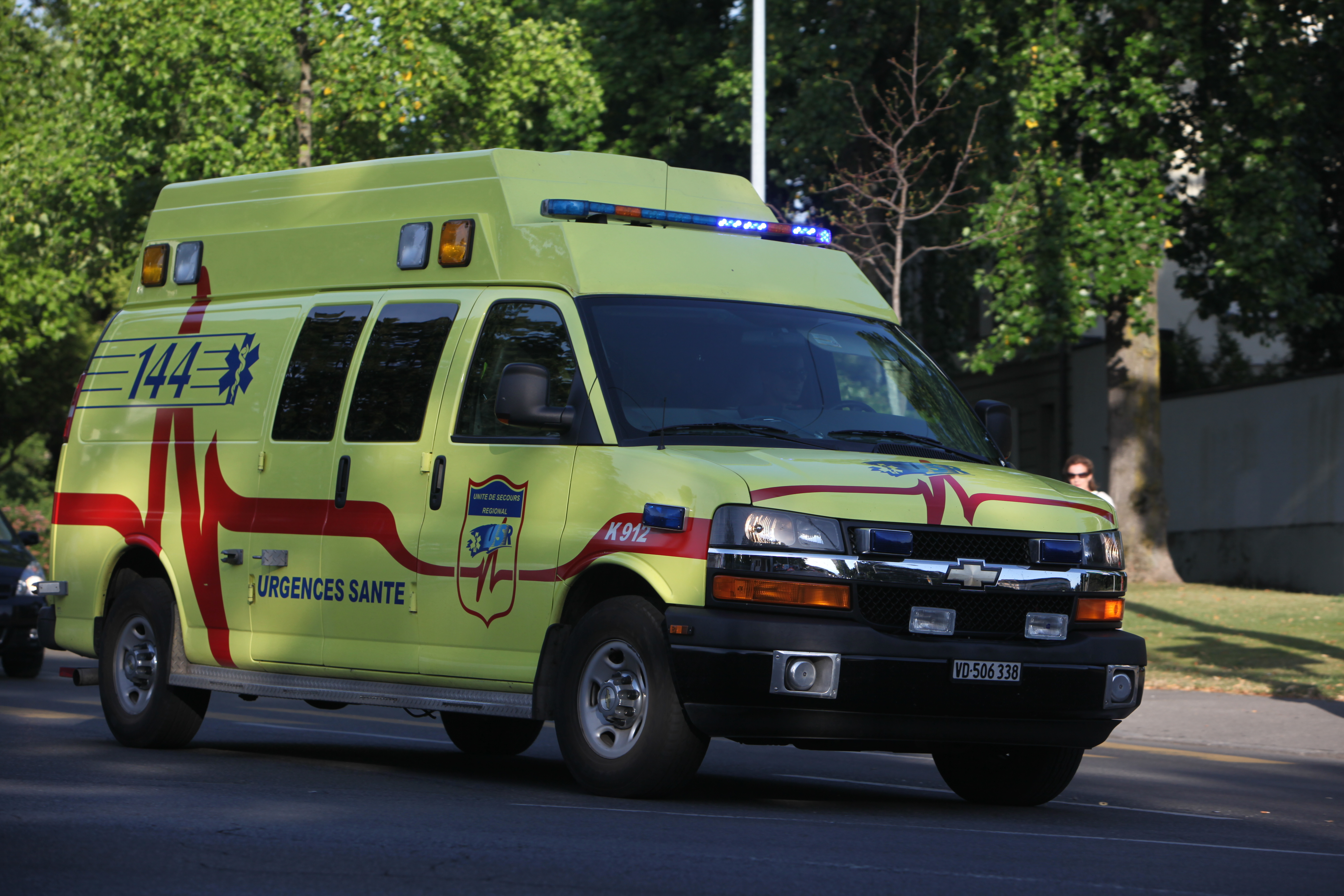 Ambulance on intervention in Lausanne, Quand?